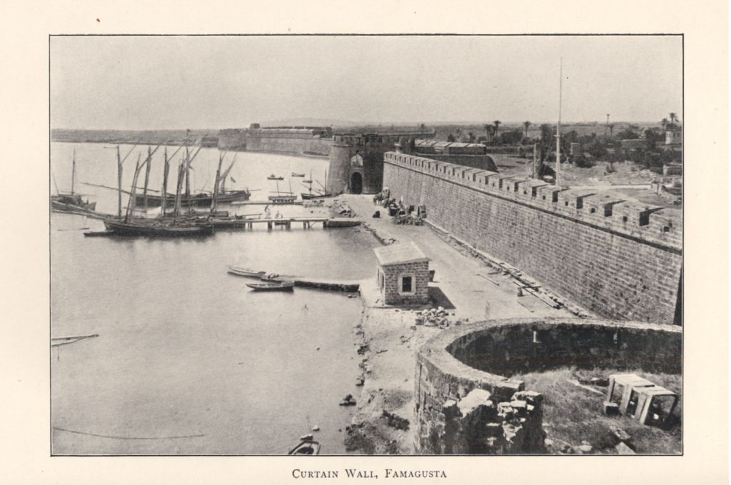 Ships docked before old city wall. Black-and-white photograph.